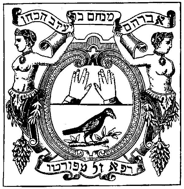 Coat of Arms of the Rapaport (Rapa from Porto Italy) family, probably from the 1600s. One of the few Jewish families to have one, it shows the hands in the form of the priestly blessing, a hallmark of the Kohen (priestly) caste that this family belonged.